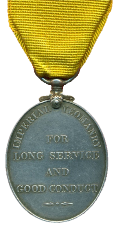 British long service medal awarded to part-time mounted army units, 1904-1908